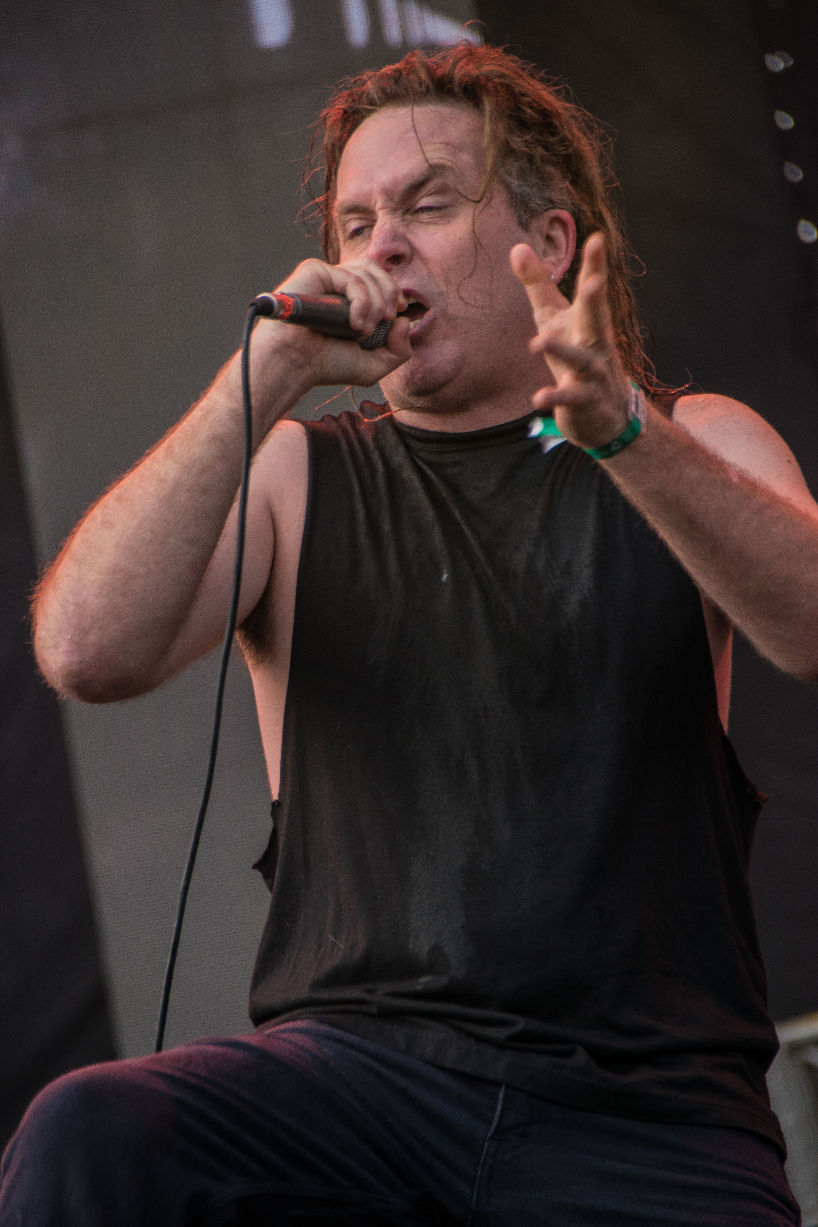 Rock al Parque 2018 Parque Simón Bólivar Bogotá, Colombia